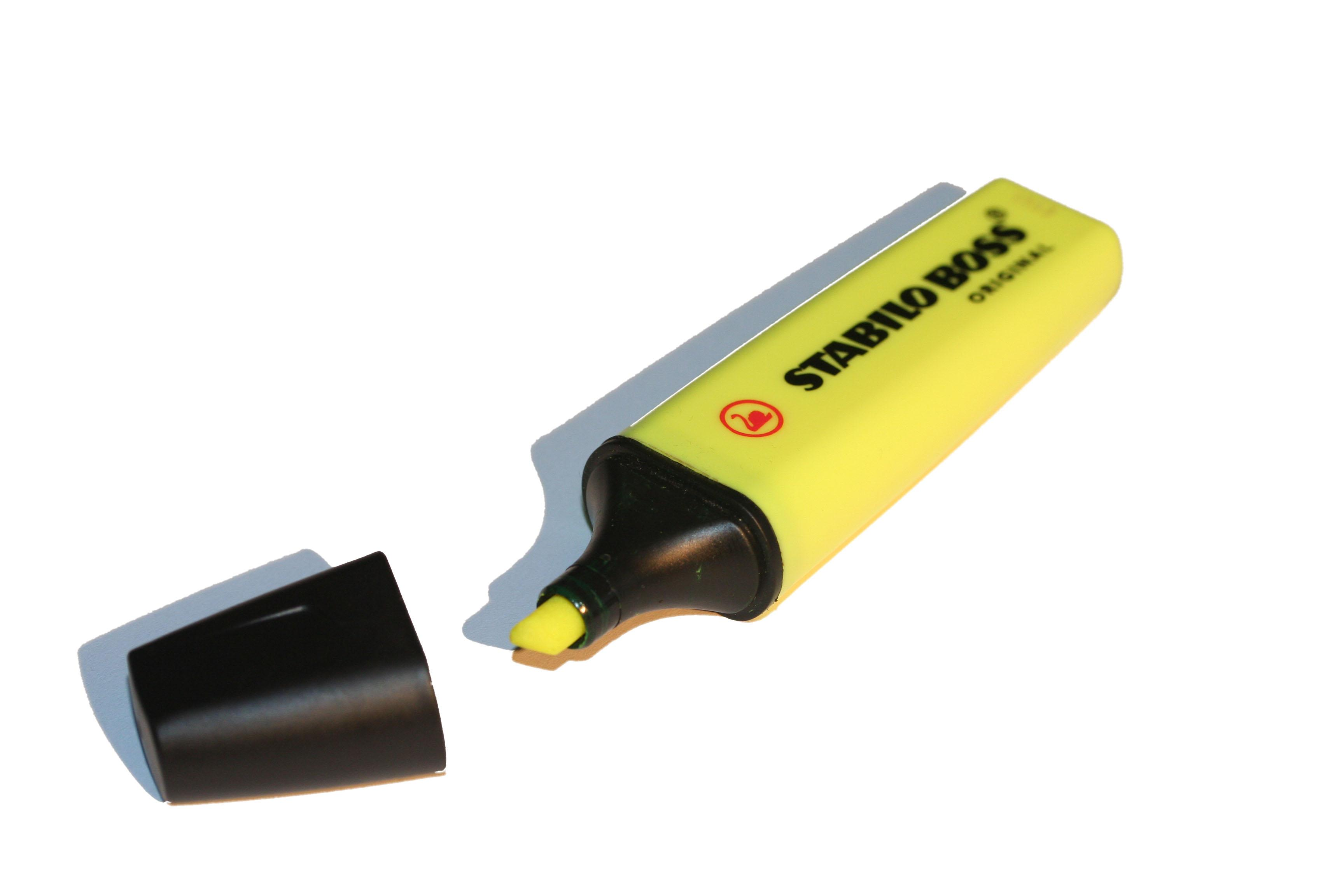 Highlighter